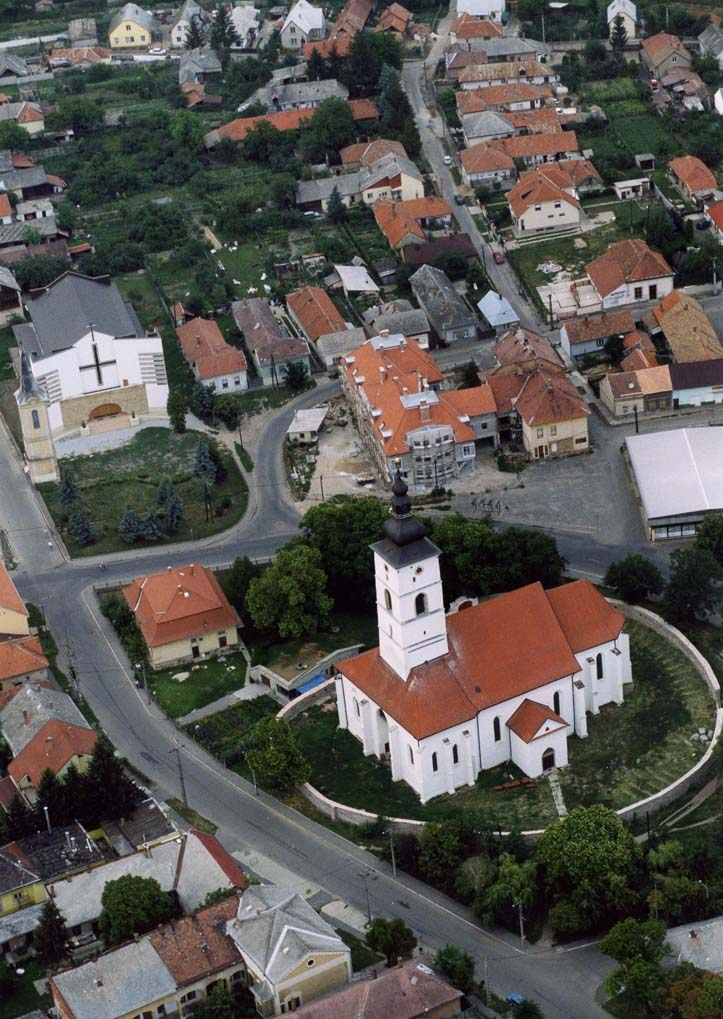 Szikszó, Hungary, aerial photography